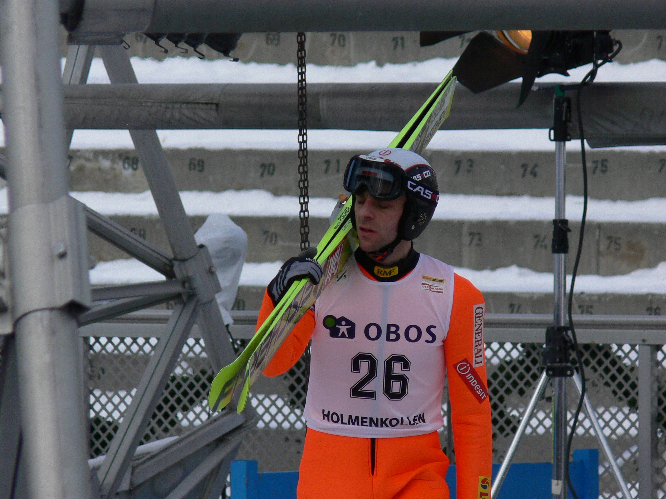 From the 2006 World Cup Ski Jumping event in Holmenkollen.